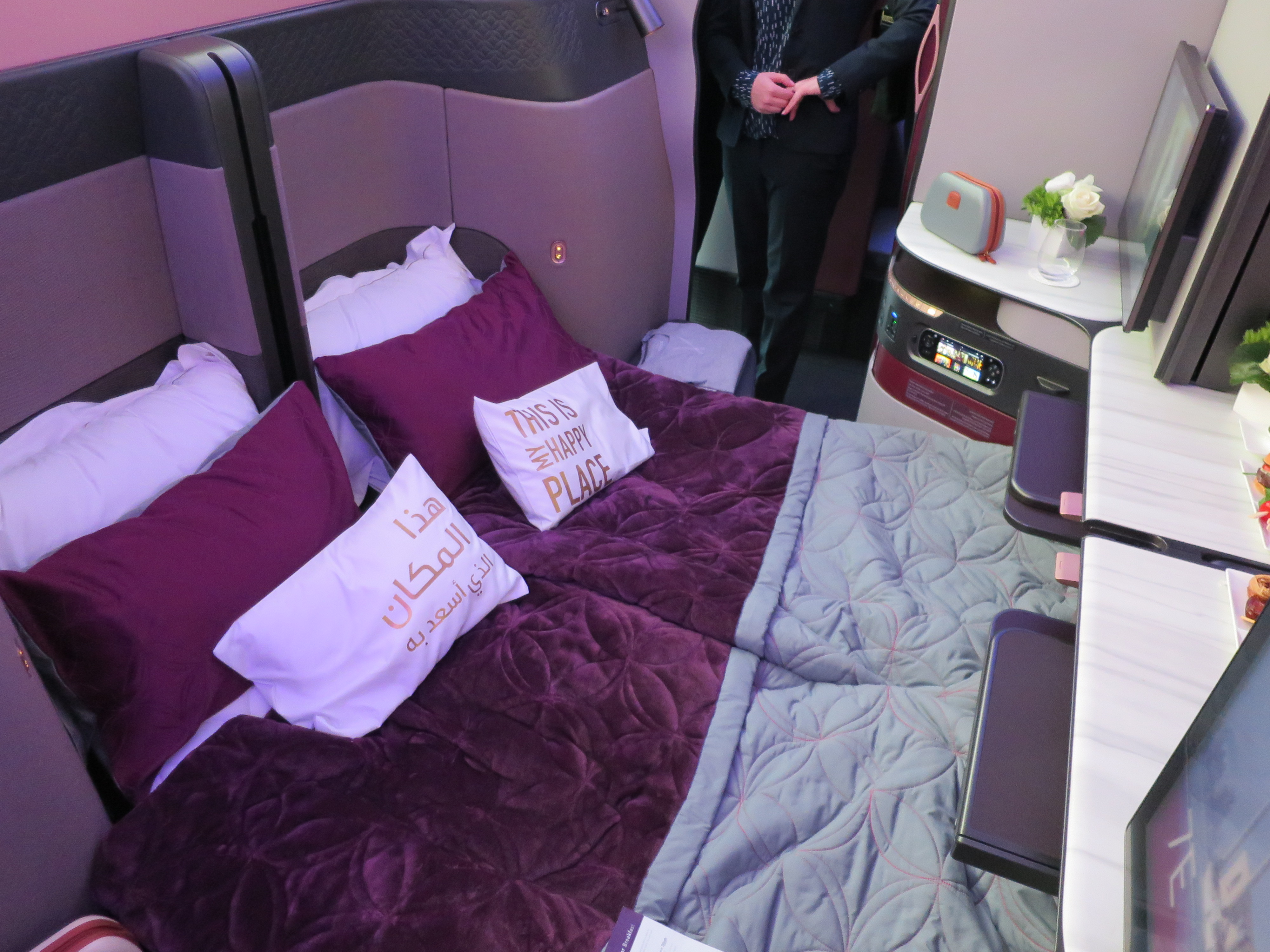 Qatar Airways Qsuite Business Class.